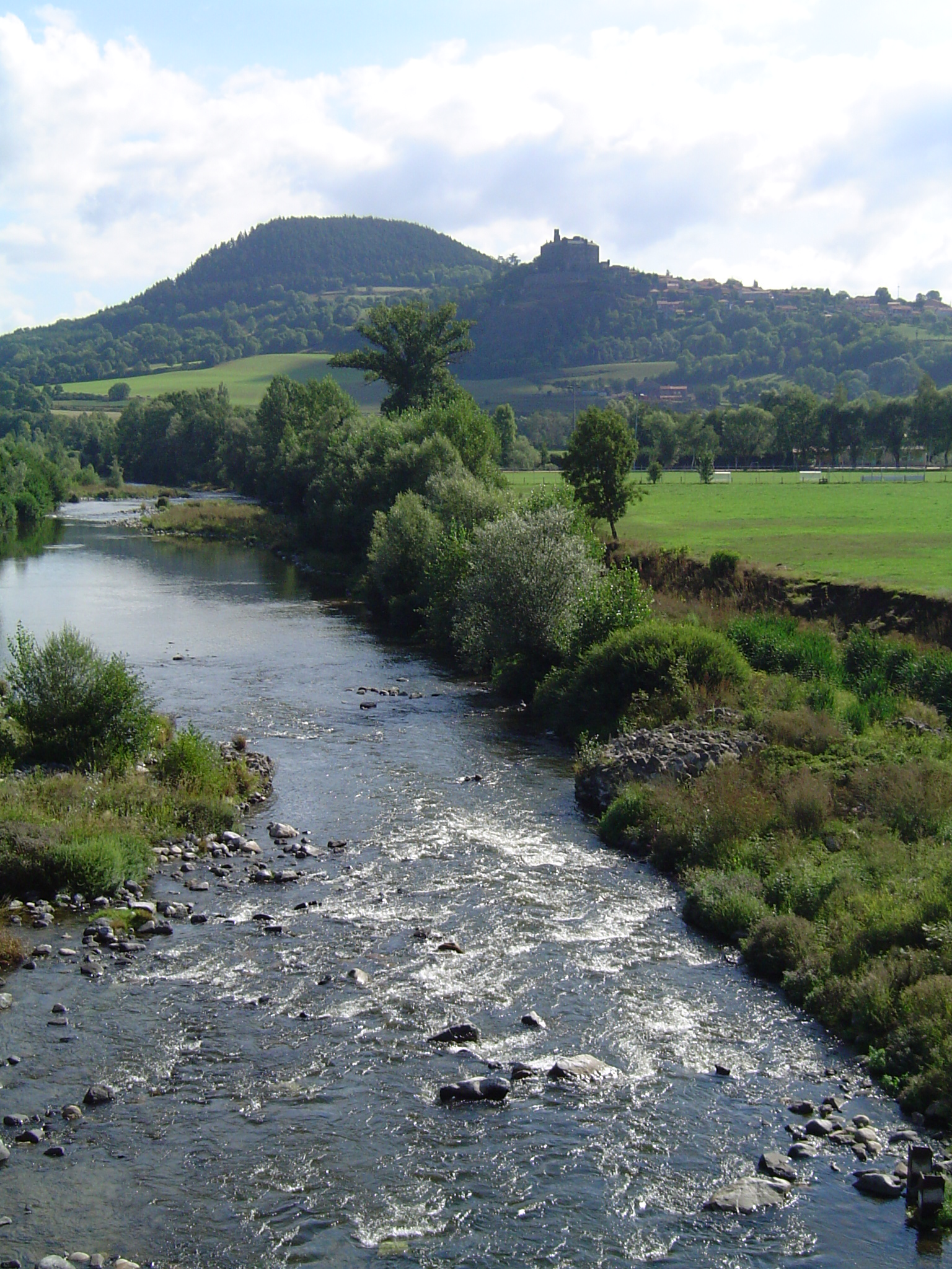 Coubon (Haute-Loire) Loire and view on château de Bouzols